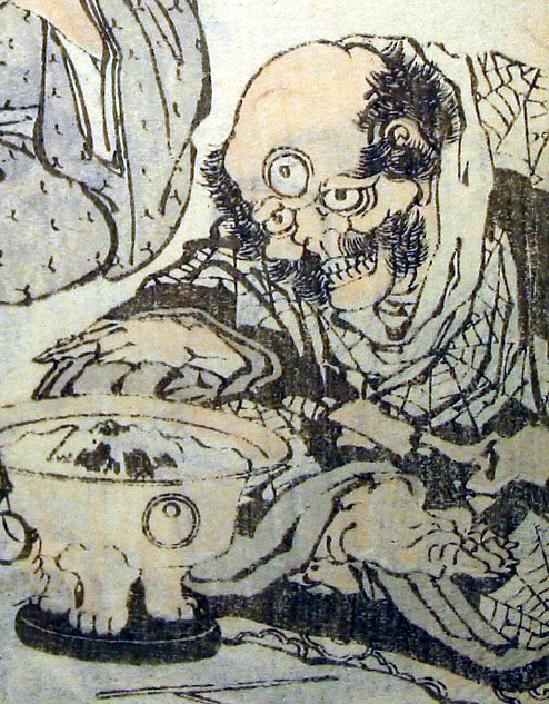 Hokusai, detail of a drawing of a mitsume (three-eyed monster).